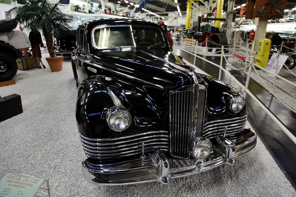 1951 armored ZIS-115 used by Joseph Stalin